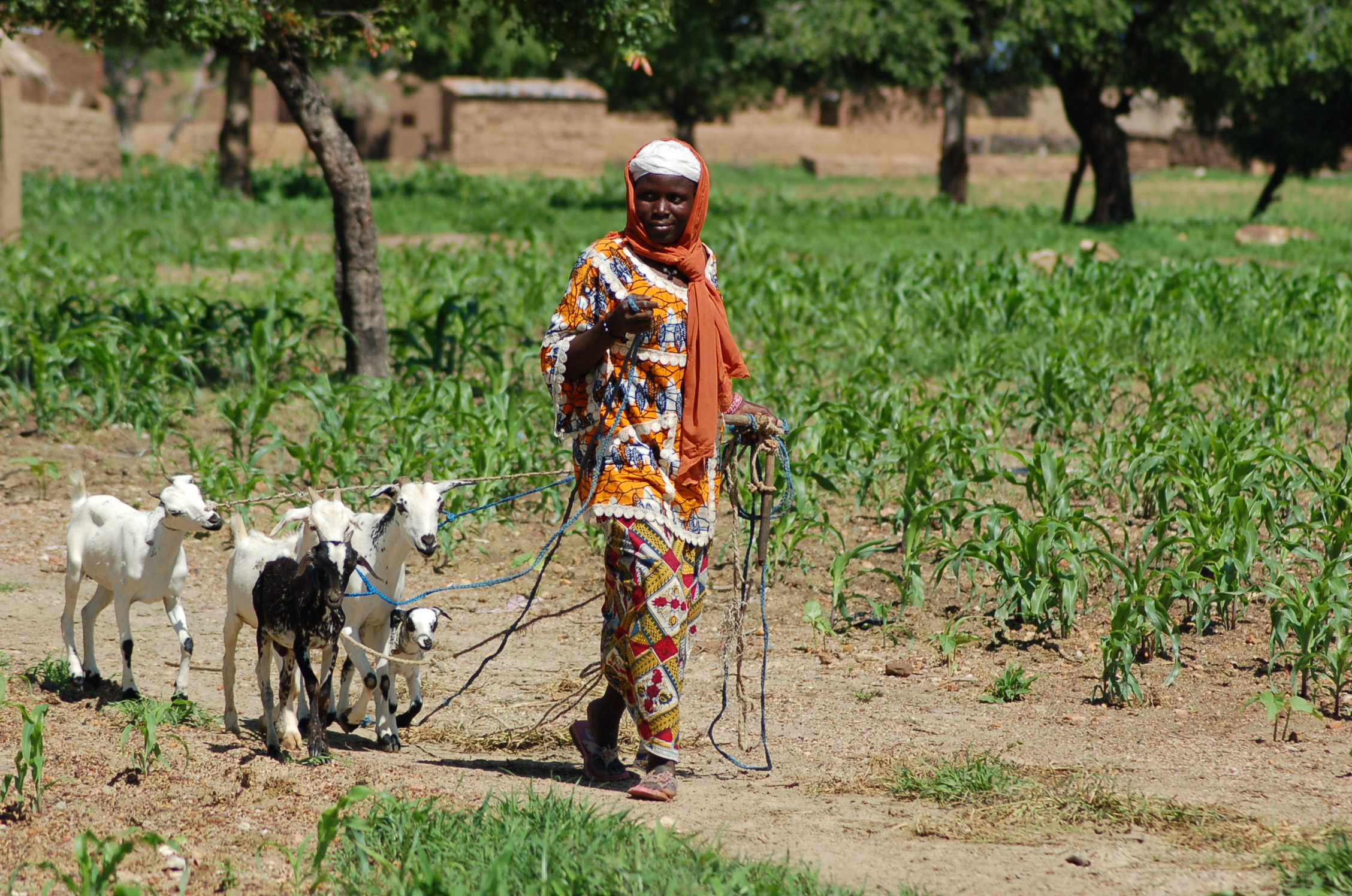 Villagers like Asseta, of Tanwalbougou, Burkina Faso, traditionally invest their savings by buying animals. Animals like goats and cattle are more at risk of theft, are more vulnerable to drought, and more expensive to look after than trees.